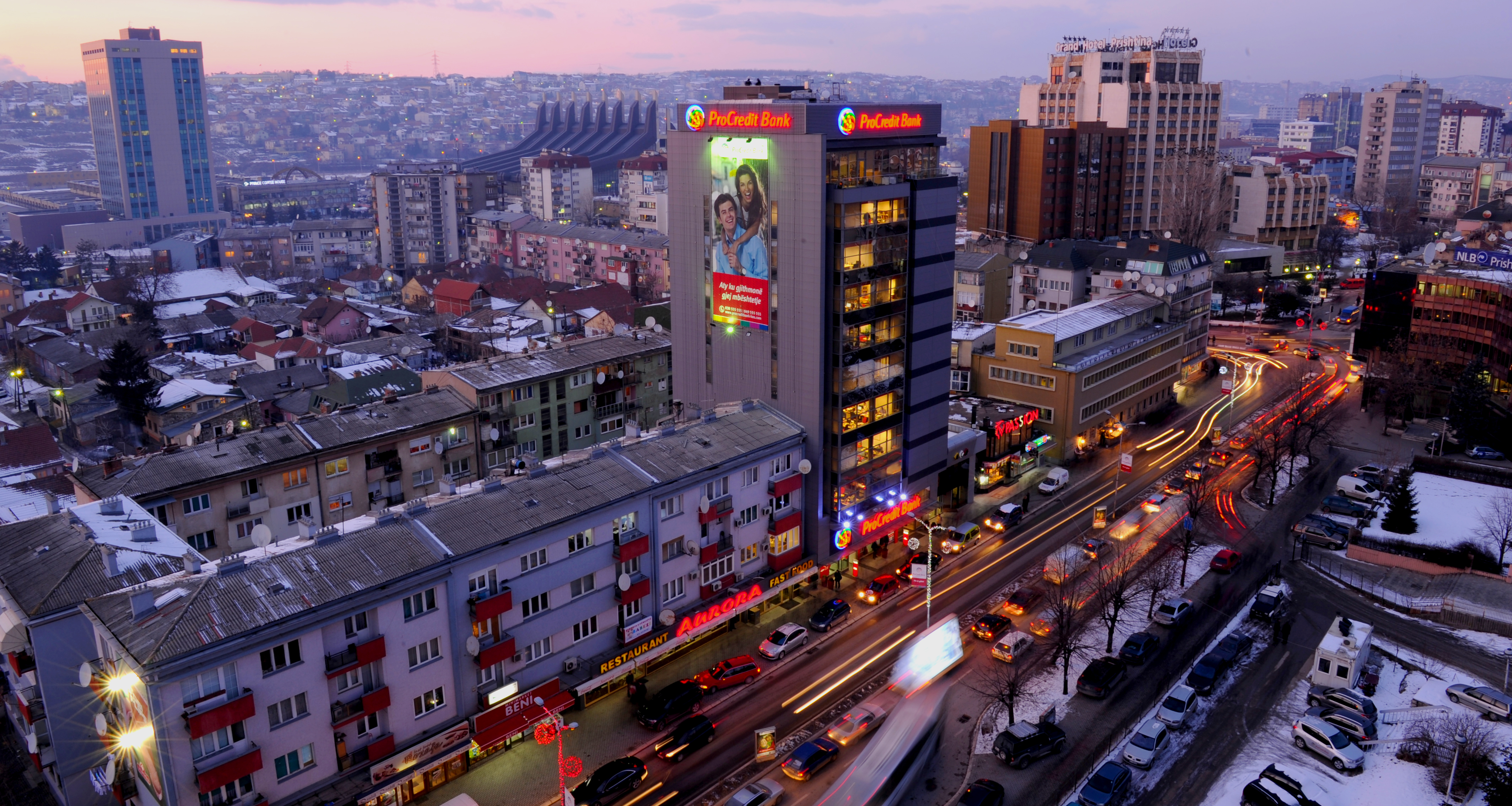 Prishtina perspektivë nga Radio Kosova 5